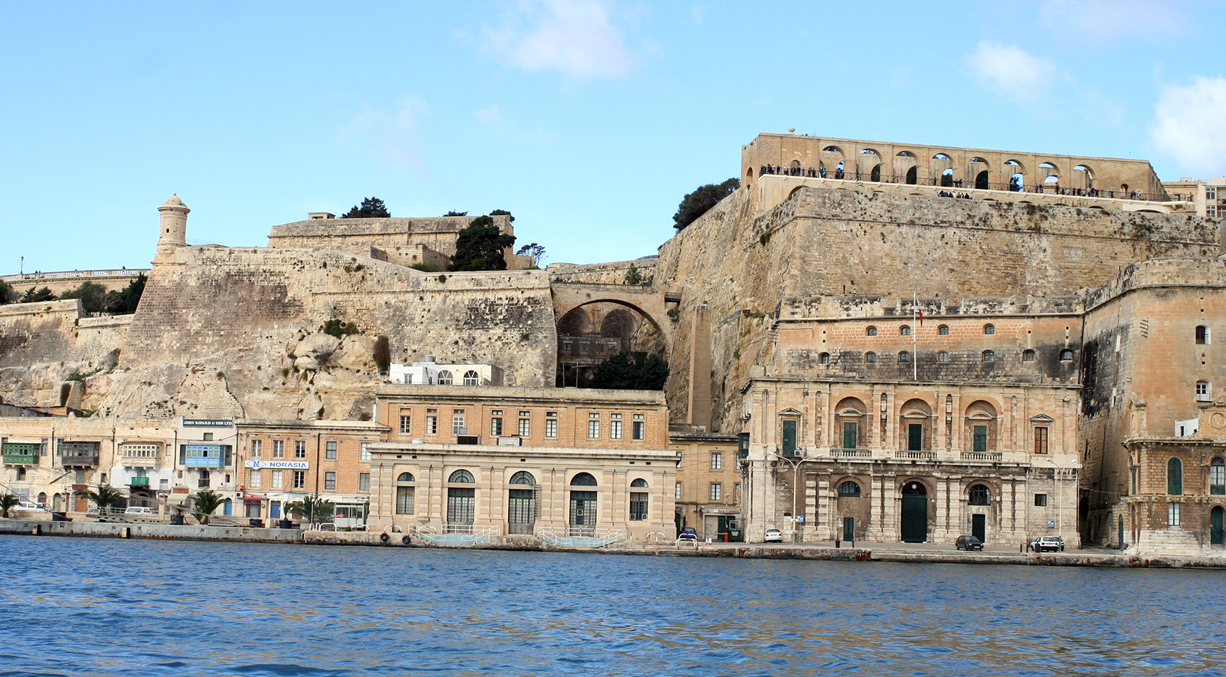 Malta, Valletta, with Upper Barracca Garden